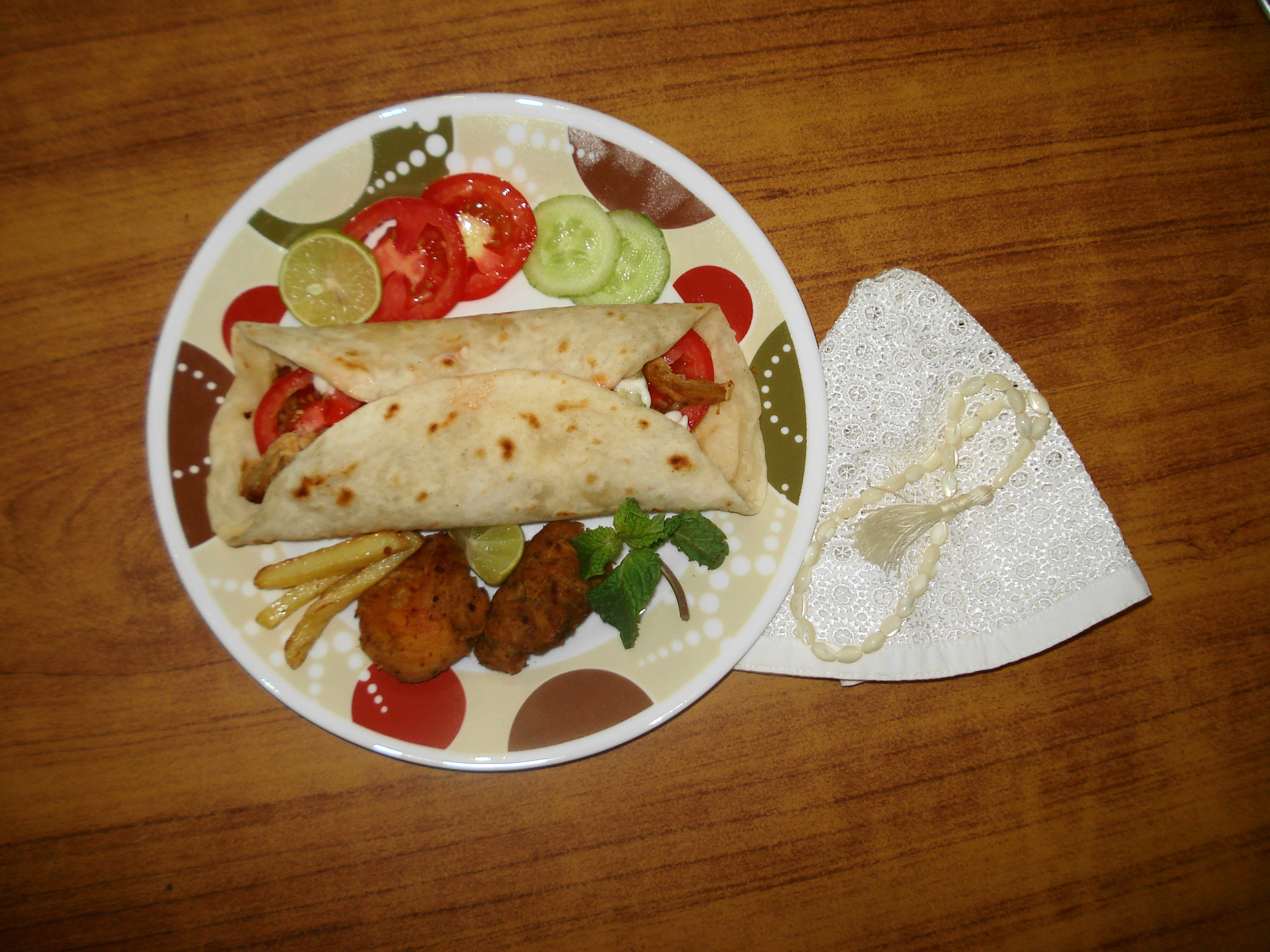 Shawarma, Shawerma